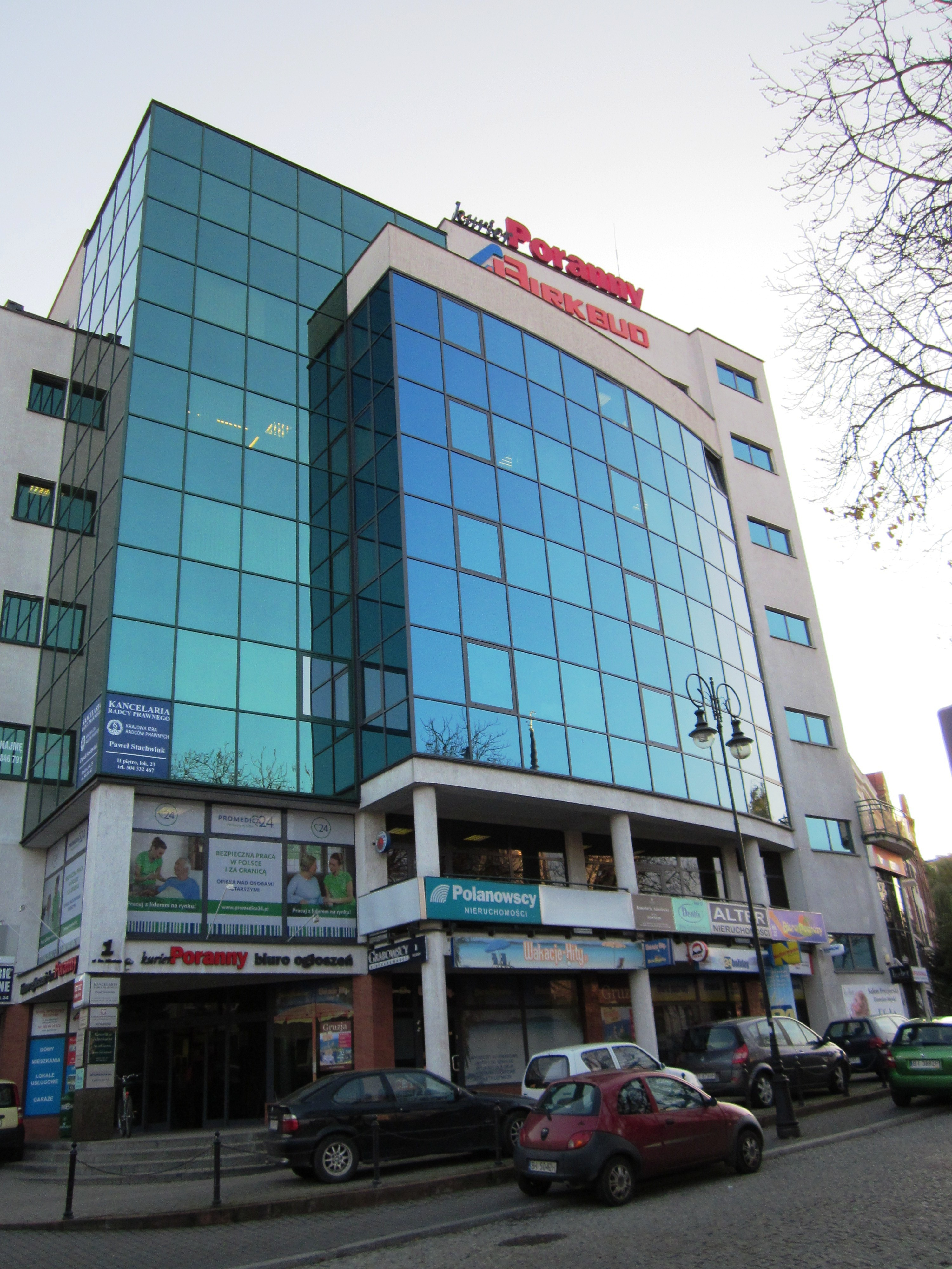 Headquarters of the Kurier Poranny newspaper in Białystok at 1 Świętego Mikołaja street.